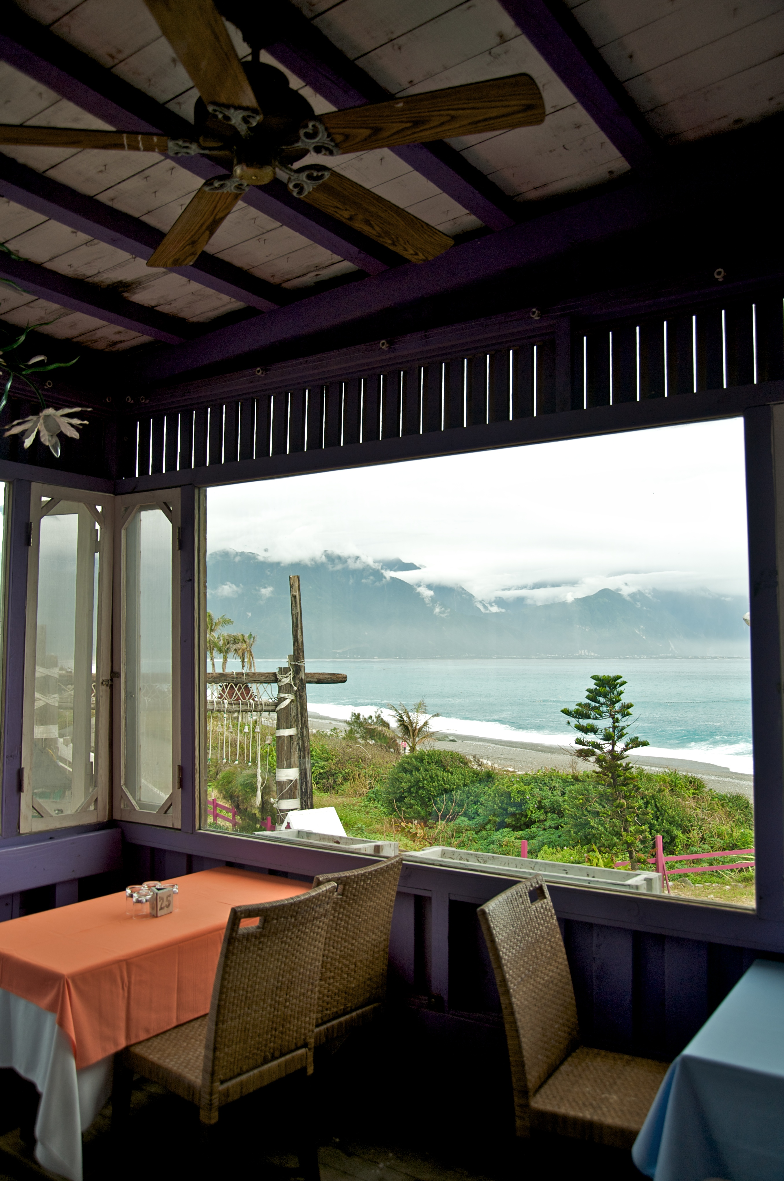 View of the CiSingTan Bay from the YuanYeh Resort in Hualient City in Taiwan